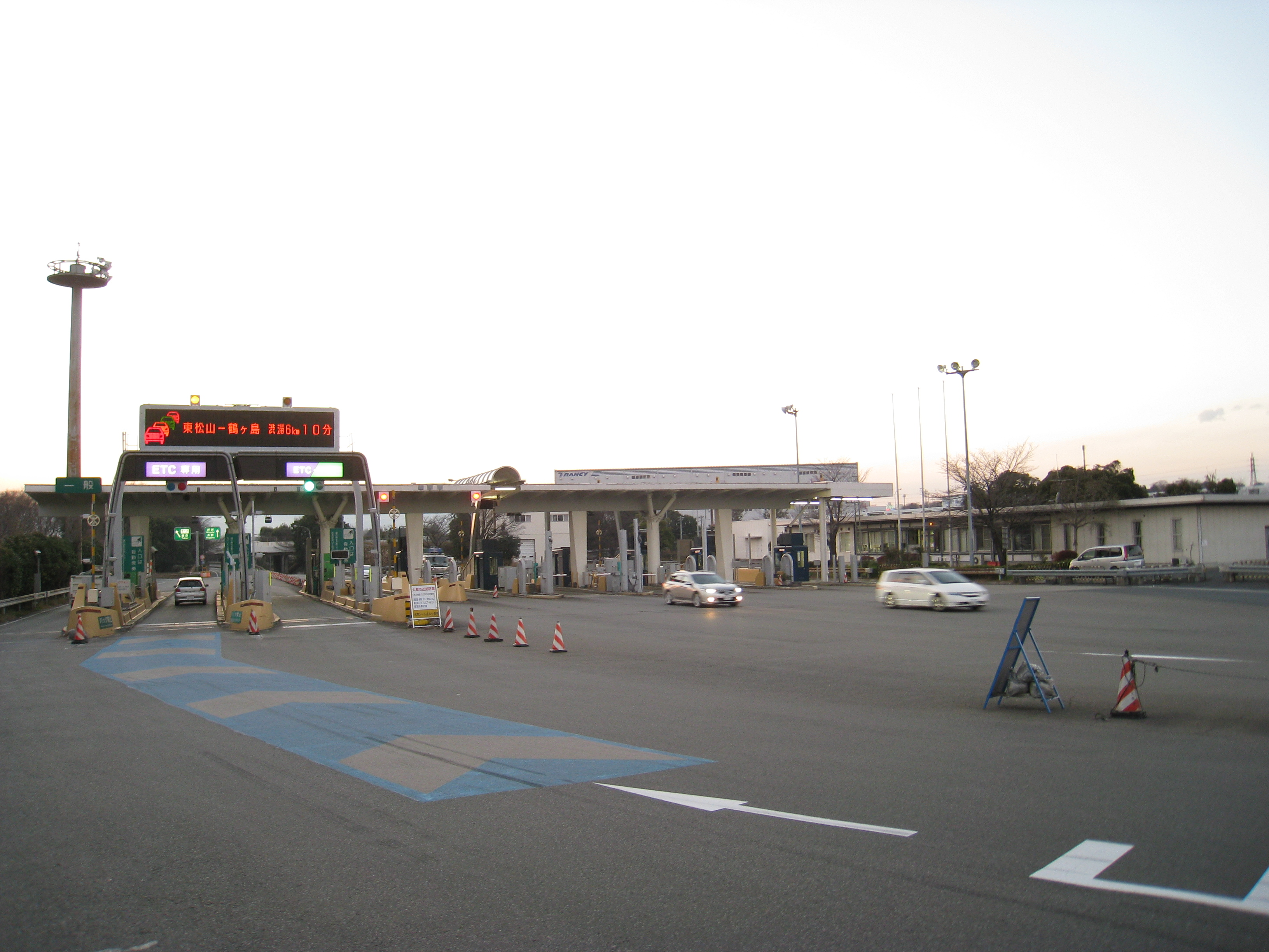 Higashimatsuyama Inter Change